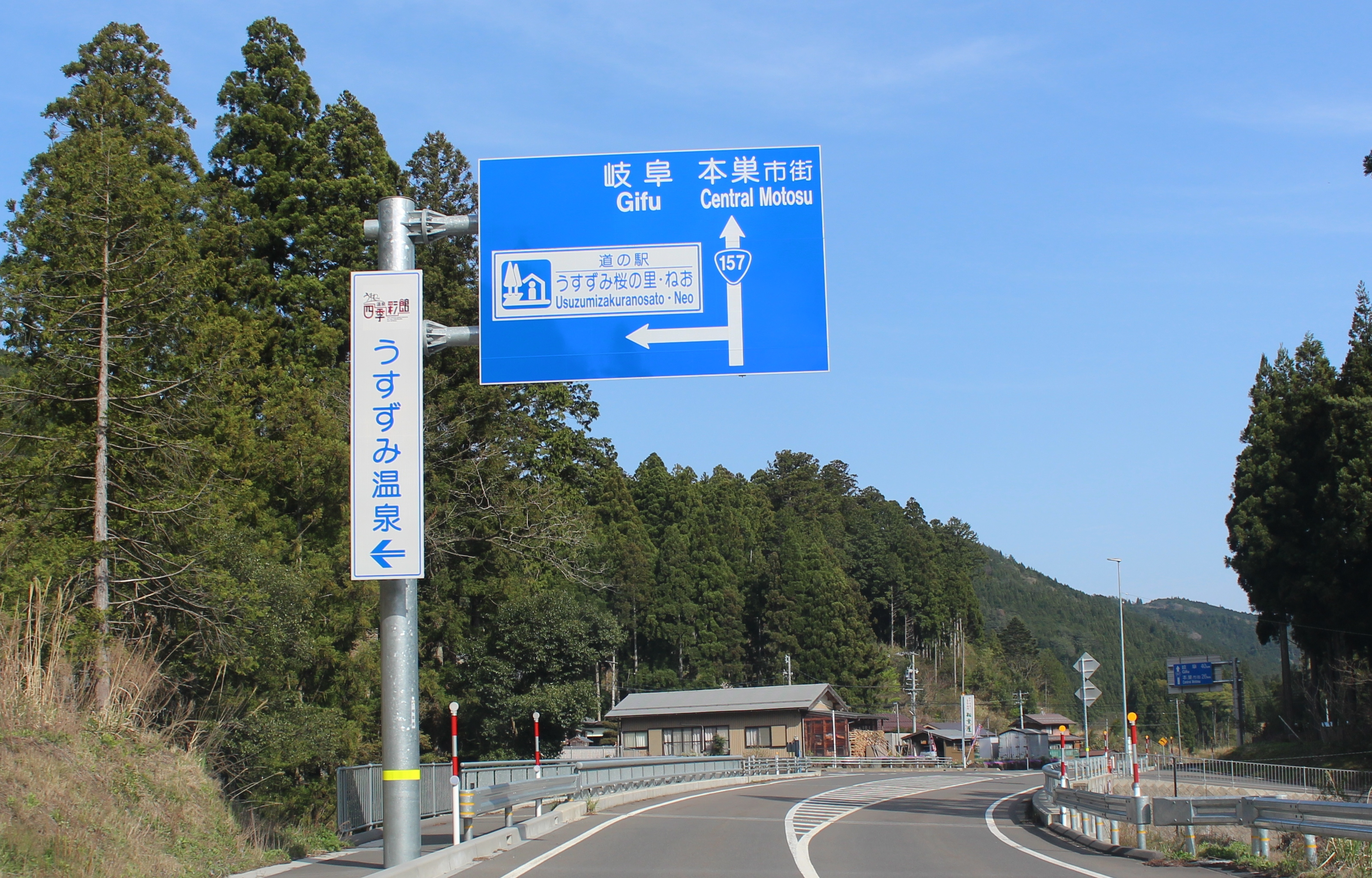 Route 157 in Neonagamine, Motosu, Gifu prefecture, Japan.